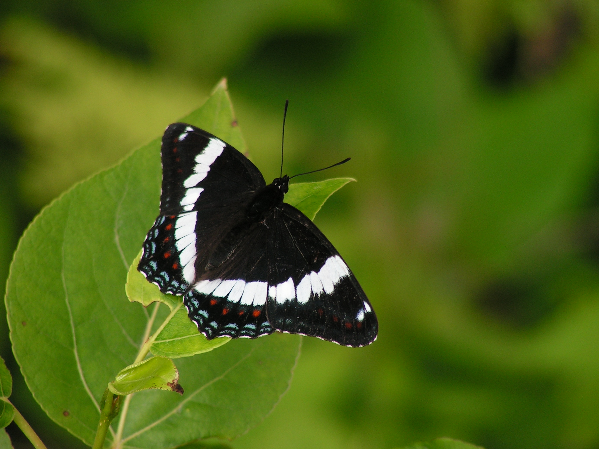 White Admiral (Limenitis arthemis, Basilarchia arthemis), Port-au-Saumon, Quebec.